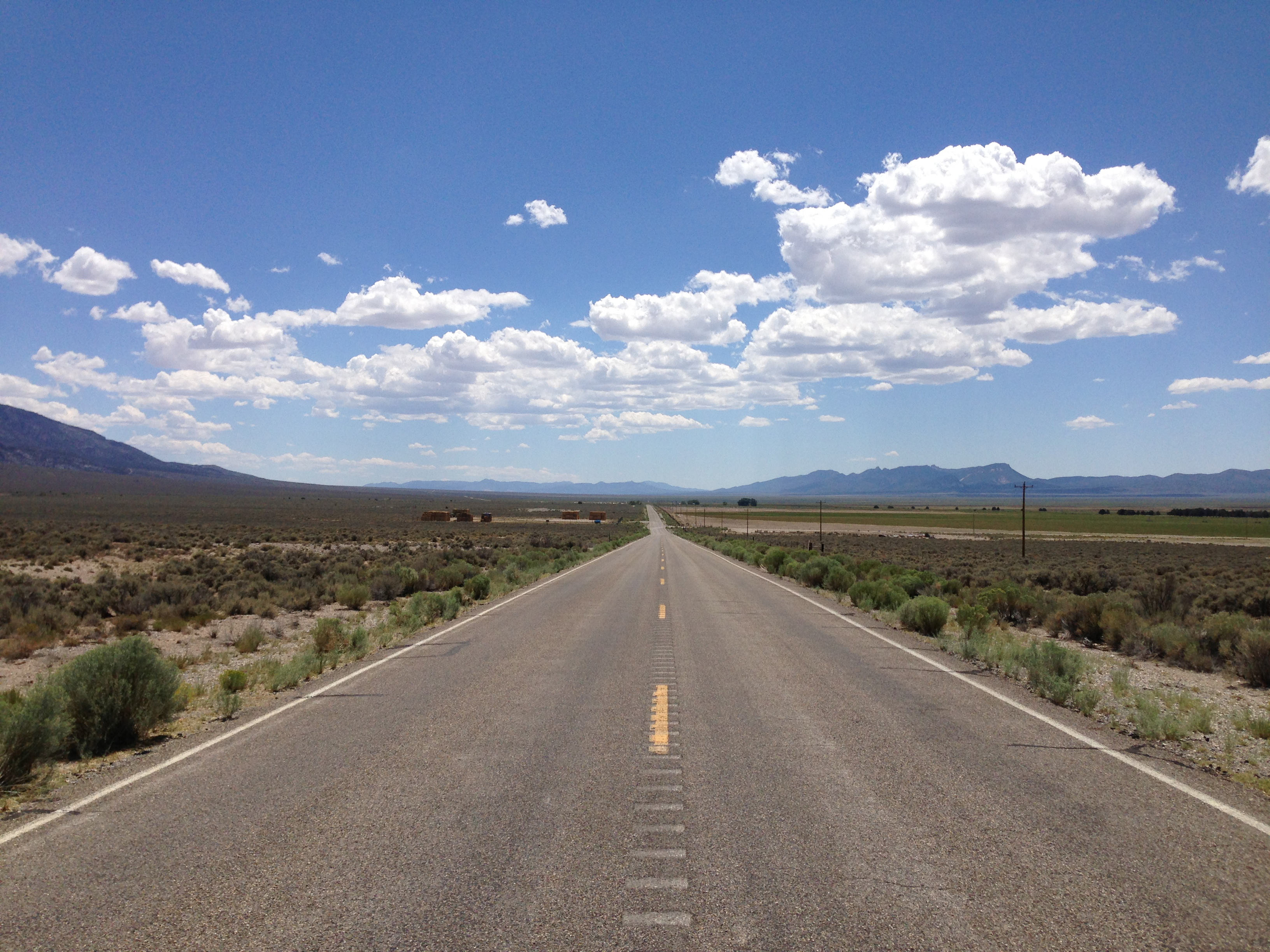 View south along Nevada State Route 894 (Shoshone Road) about 1.7 miles north of the end of pavement in Shoshone, Nevada